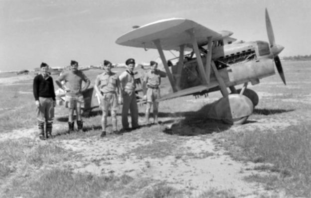 Outdoor portrait of RAAF officers in front of an Italian CR.32 fighter plane at Benghazi, Libya. From left : 260652 (later Squadron Leader 2 Operational Training Unit) Thomas Hamilton Trimble. 386 Alan Charles Rawlinson (later Wing Commander, DFC, 78 Wing Headquarters). 456 Flight Lieutenant Lindsay Eric Shaw Knowles, (later No. 3 Squadron), killed during operations on 22 November 1941, aged 24. 481 Peter St George Bruce Turnbull (later DFC, Squadron Leader, 76 Squadron). 134 Duncan Campbell (later Squadron Leader, No. 3 Squadron) killed during operations on 5 April 1941, aged 26.